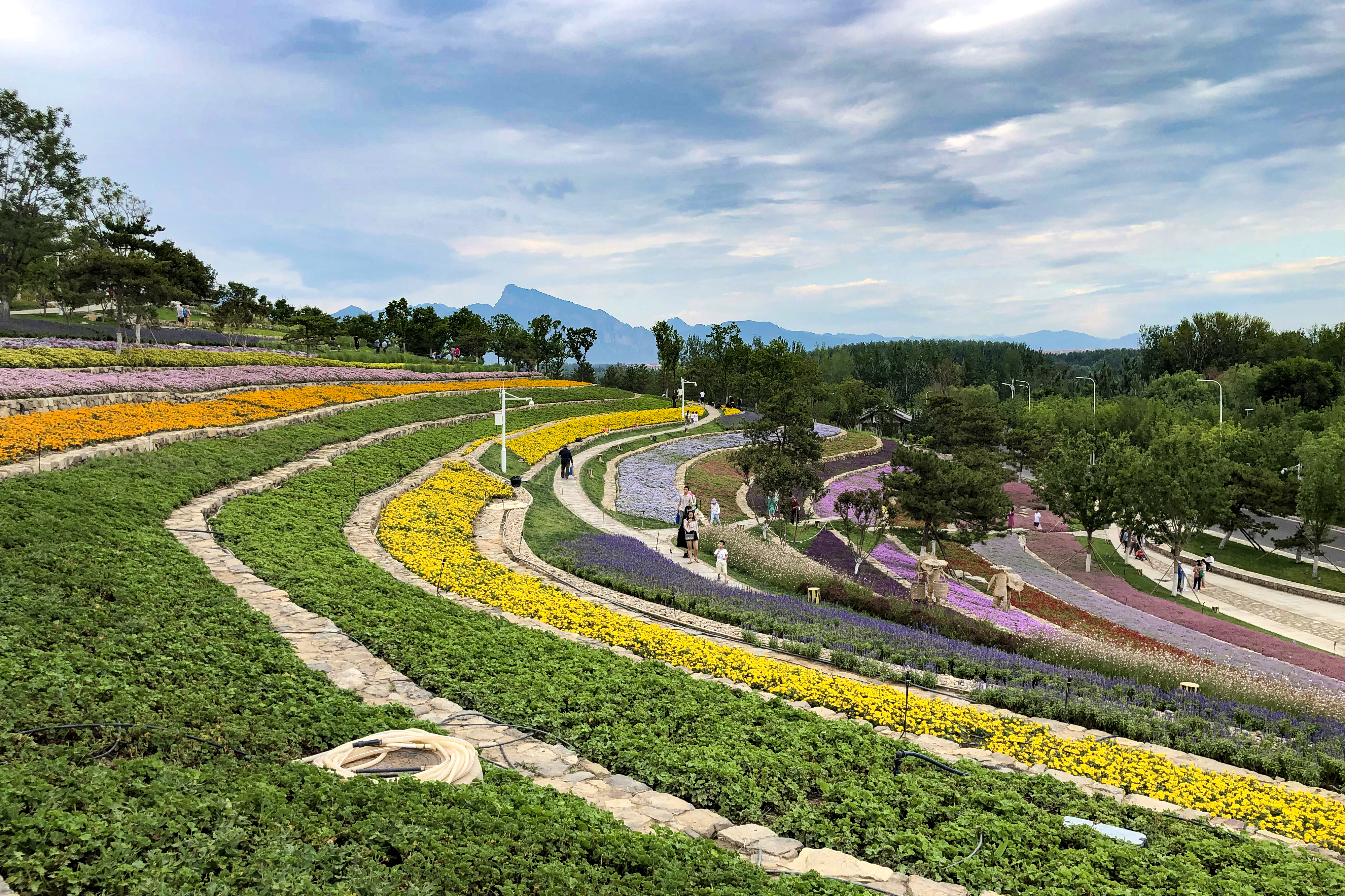 East of the Yongning Pavilion.